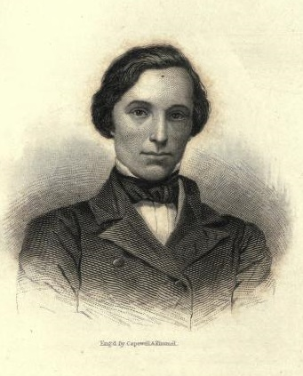 Engraved portrait of American poet James Matthew Legaré (1823-1859). Cropped version. From The Knickerbocker Gallery, New York: Samuel Hueston, 1855: p. 347